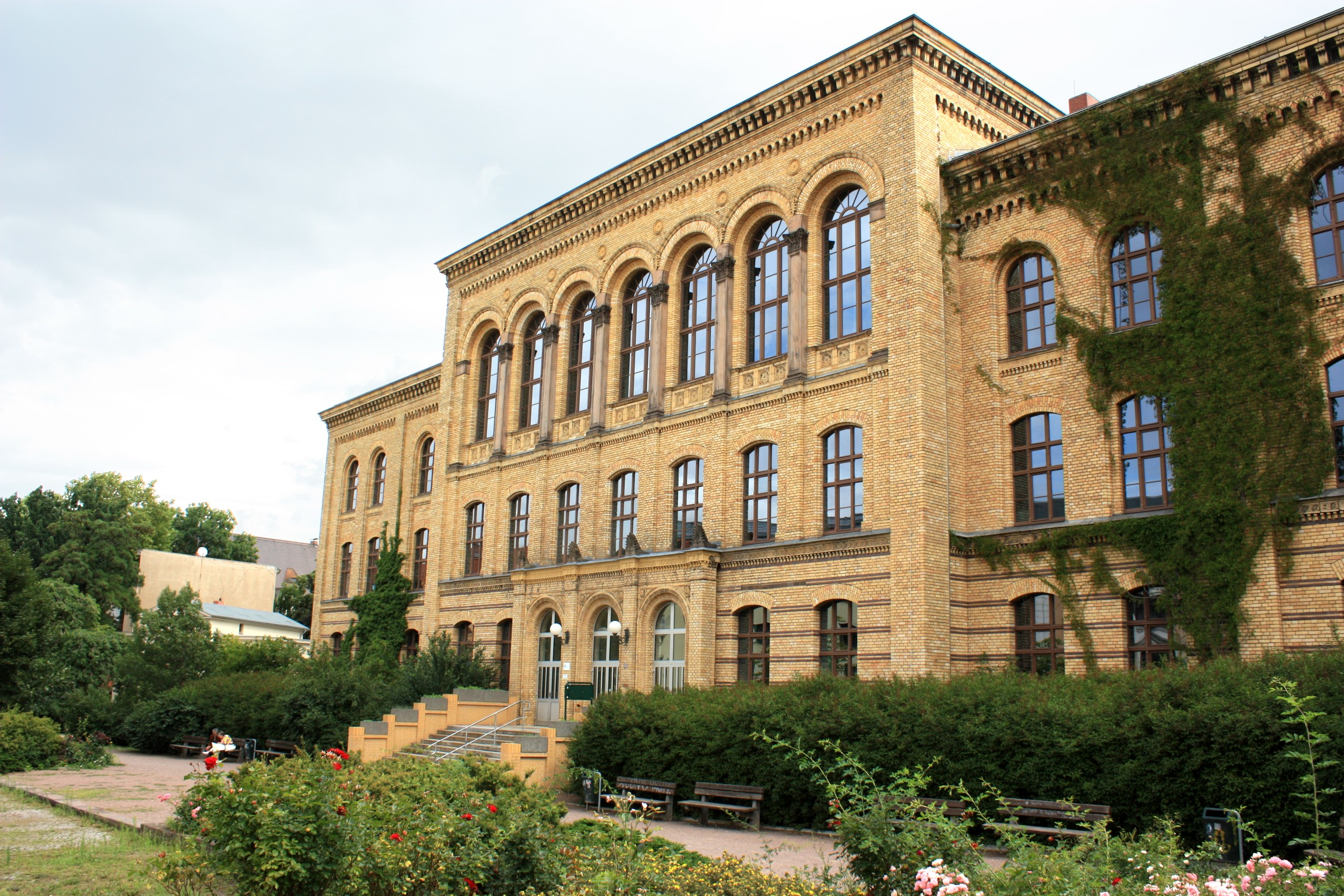 Halle (Saale), Adam-Kuckhoff-Straße, the Integrated Comprehensive School